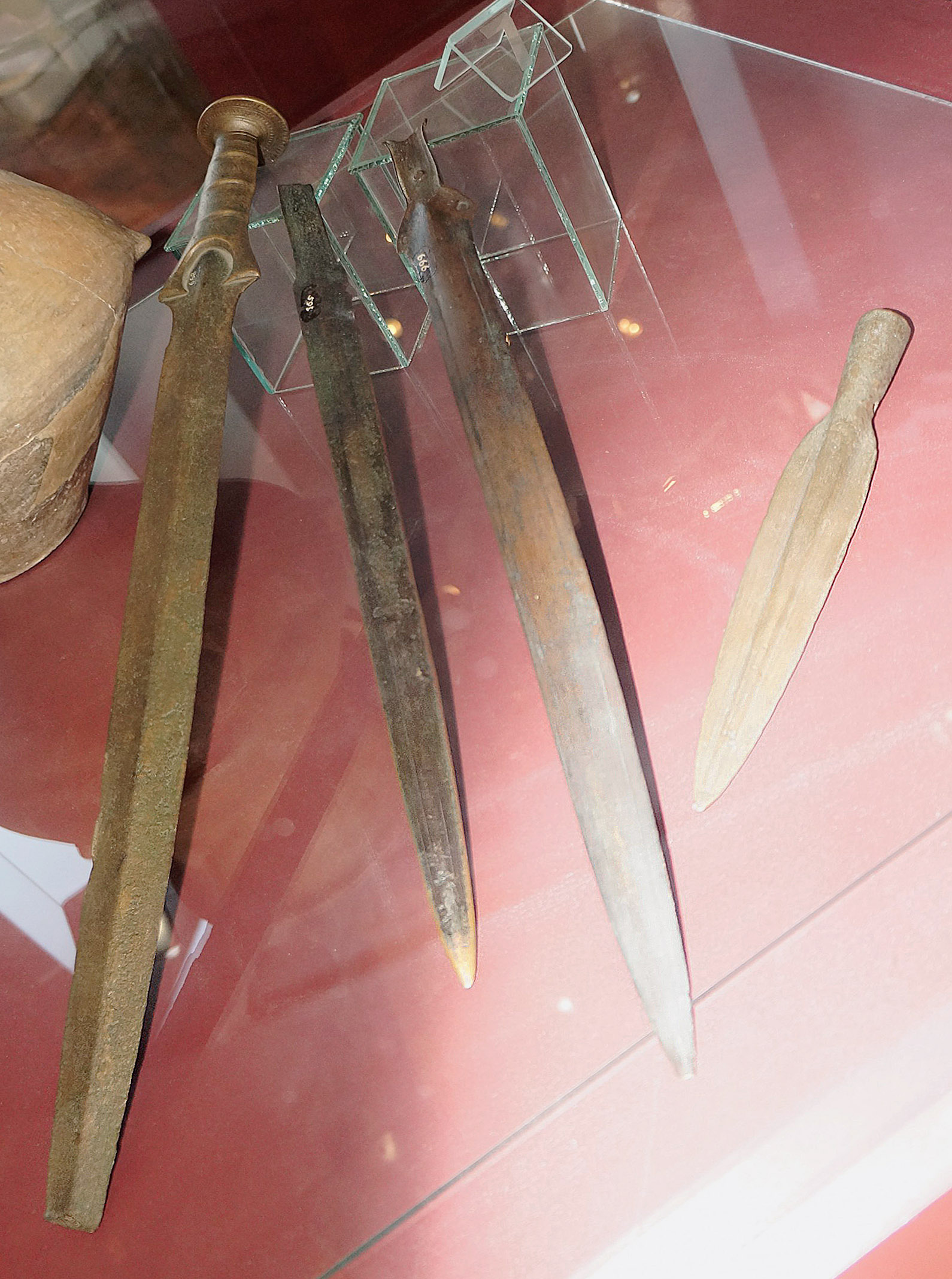 Bronze Age cabinet 01, museum Zrenjanin Српски (ћирилица): Бронзани мaчеви и врх копља. Локалитети Ковин, Фењ, Борђош, Волошиново - Нови Бечеј (бронзано доба)